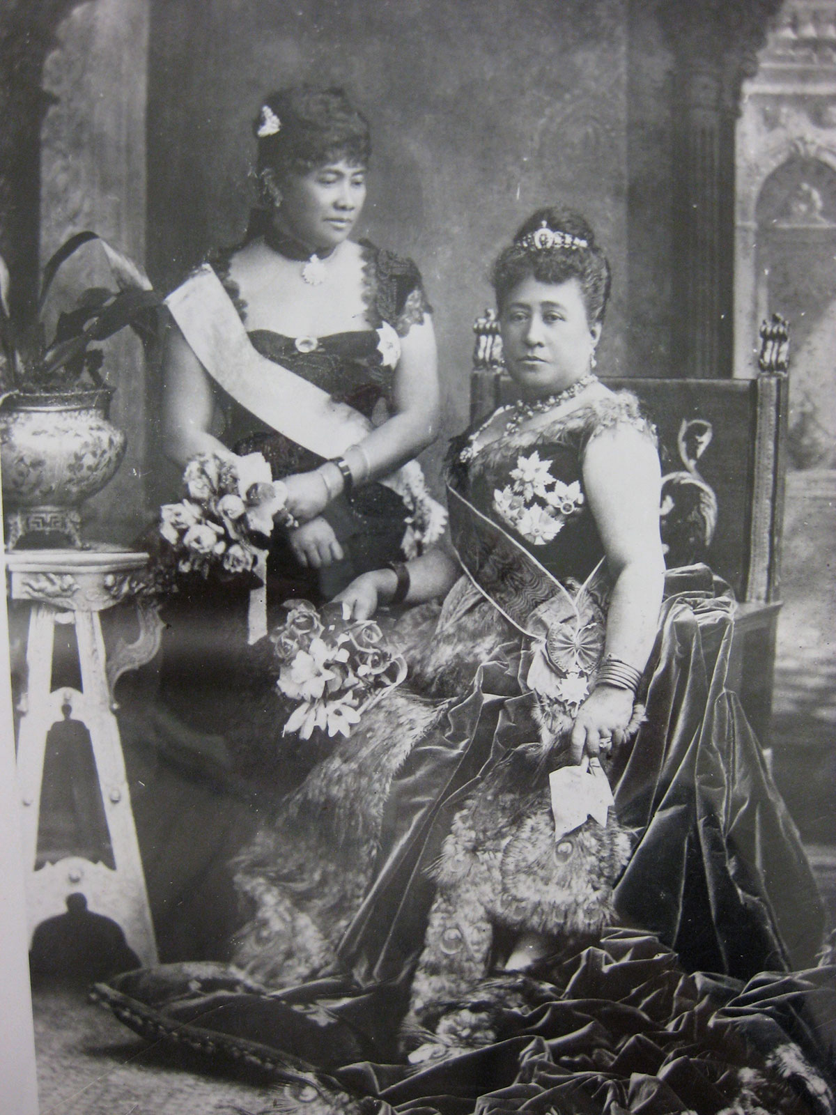 Queen Kapiolani and Crown Princess Liliuokalani at Queen Victoria's Golden Jubilee.